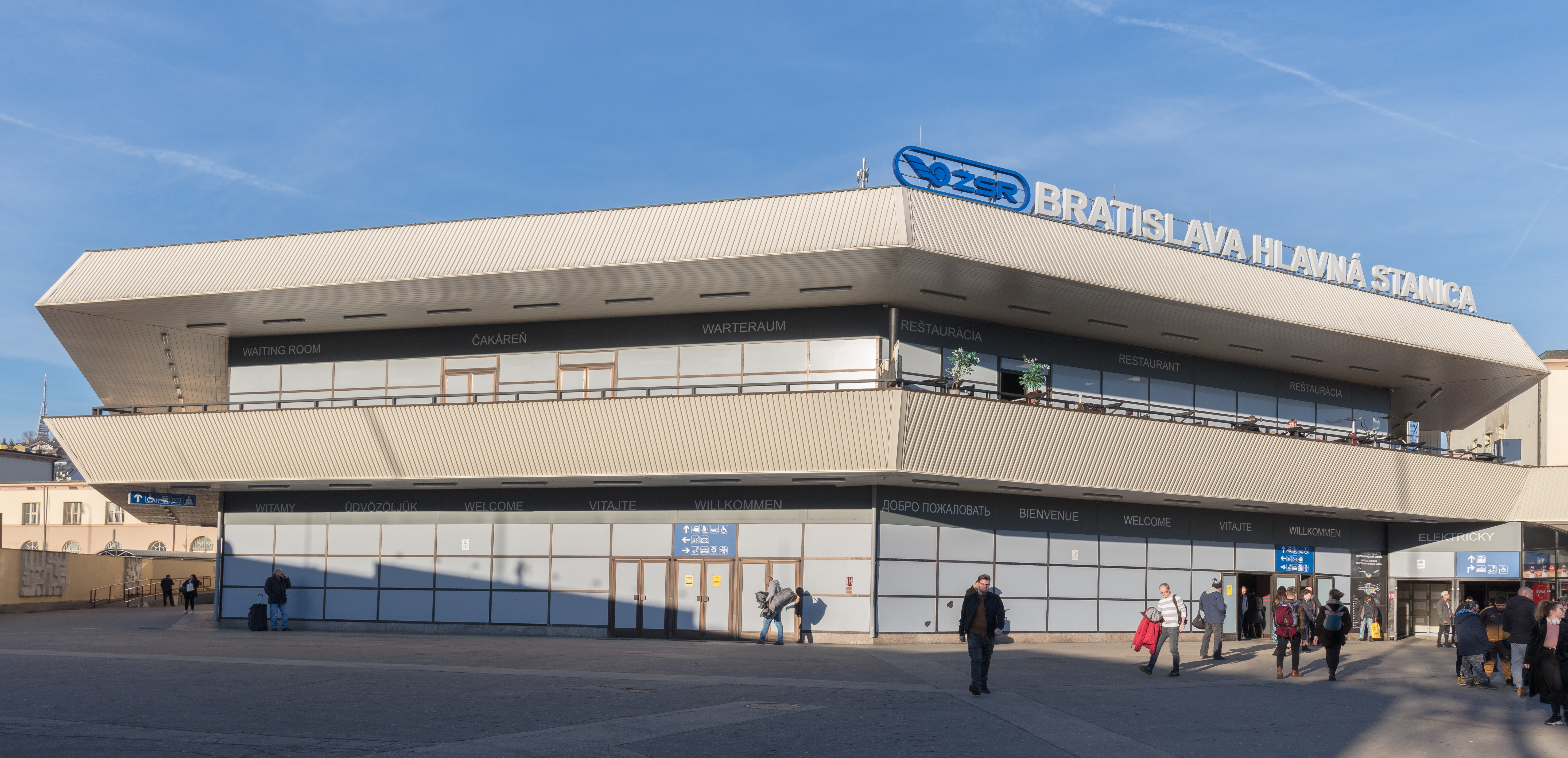 Central railway station, Bratislava, Slovakia